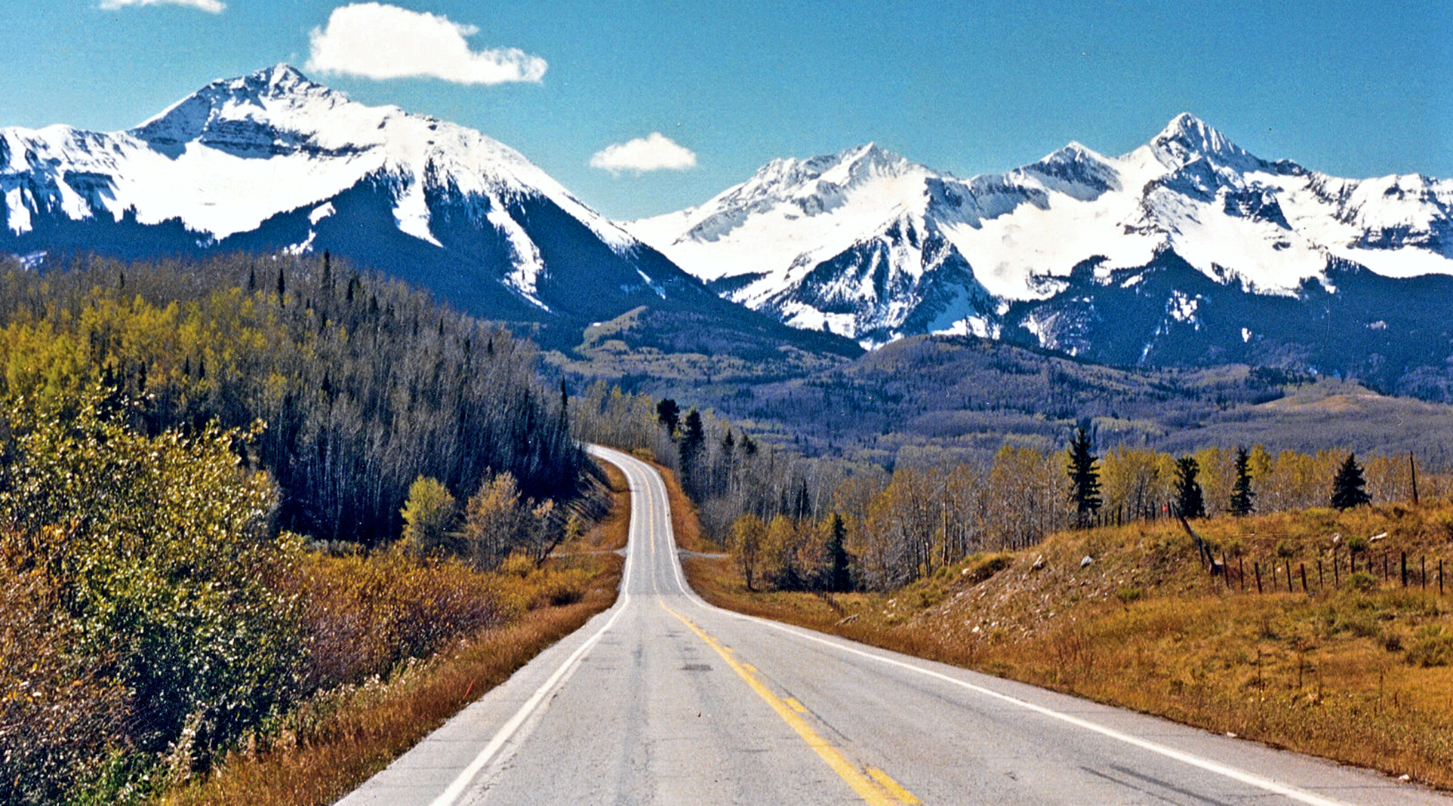 Sunshine Mountain to left, Wilson Peak to the right, Mount Wilson centered farther back. This view from southbound Colorado Highway 145.